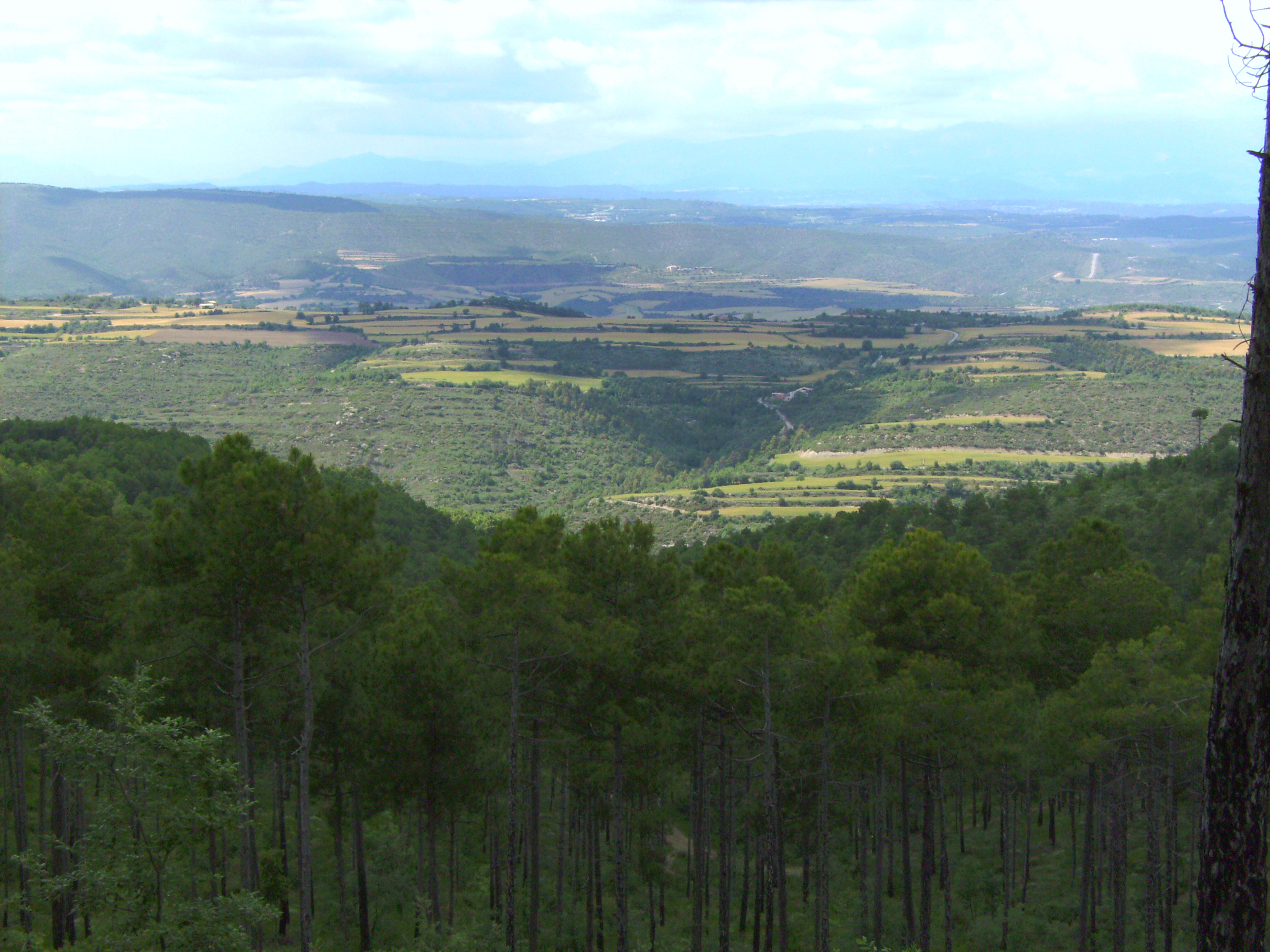 A Pinus nigra forest with the survivors pines after 1998 wildfire, Castelltallat, Catalonia